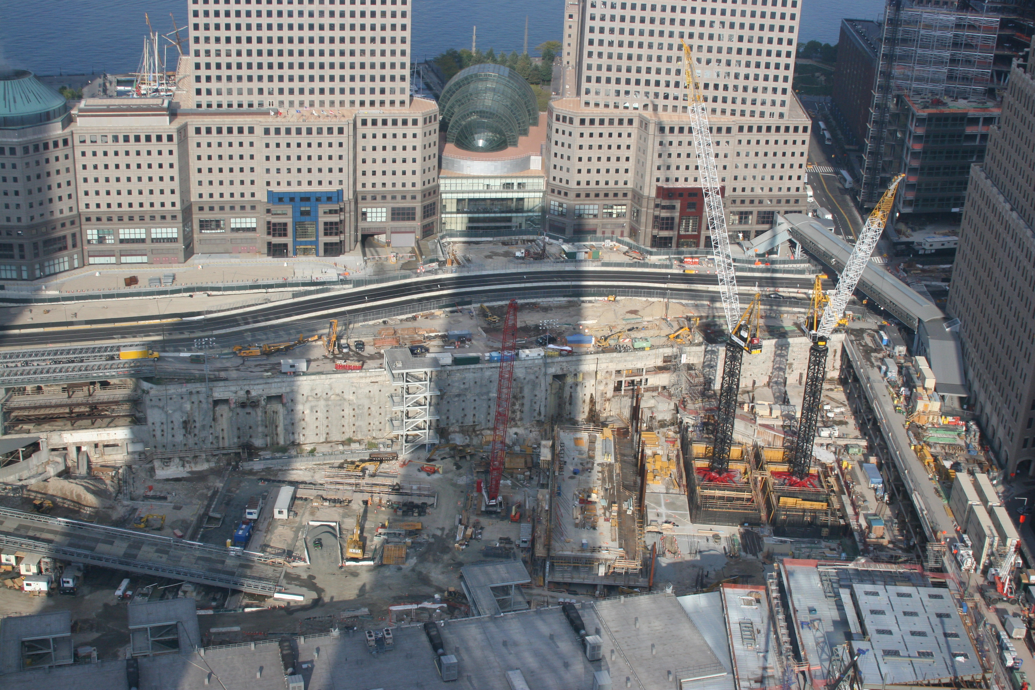 Construction of the Freedom Tower and other construction at the WTC site, as of October 7, 2007.